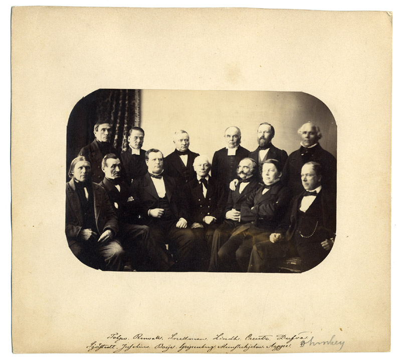 Group portrait of 12 of the 48 deputies of the January Committee in 1862, preparing for the first meeting of the Diet of Finland in 1863, one of a set of four (+1) images.